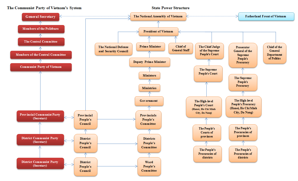 Political Structure in Vietnam